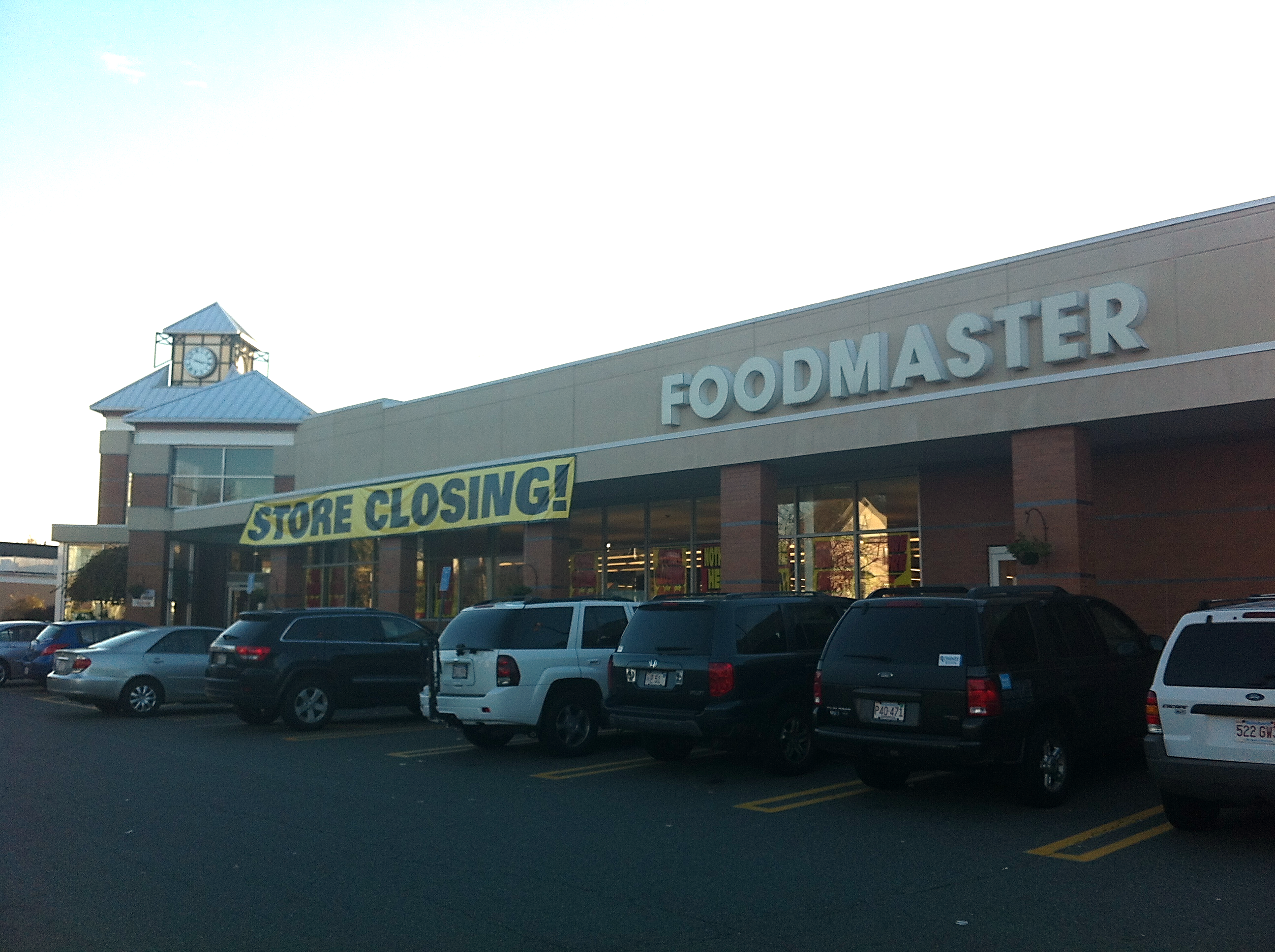 Melrose Foodmaster during closing liquidation in November 2012.